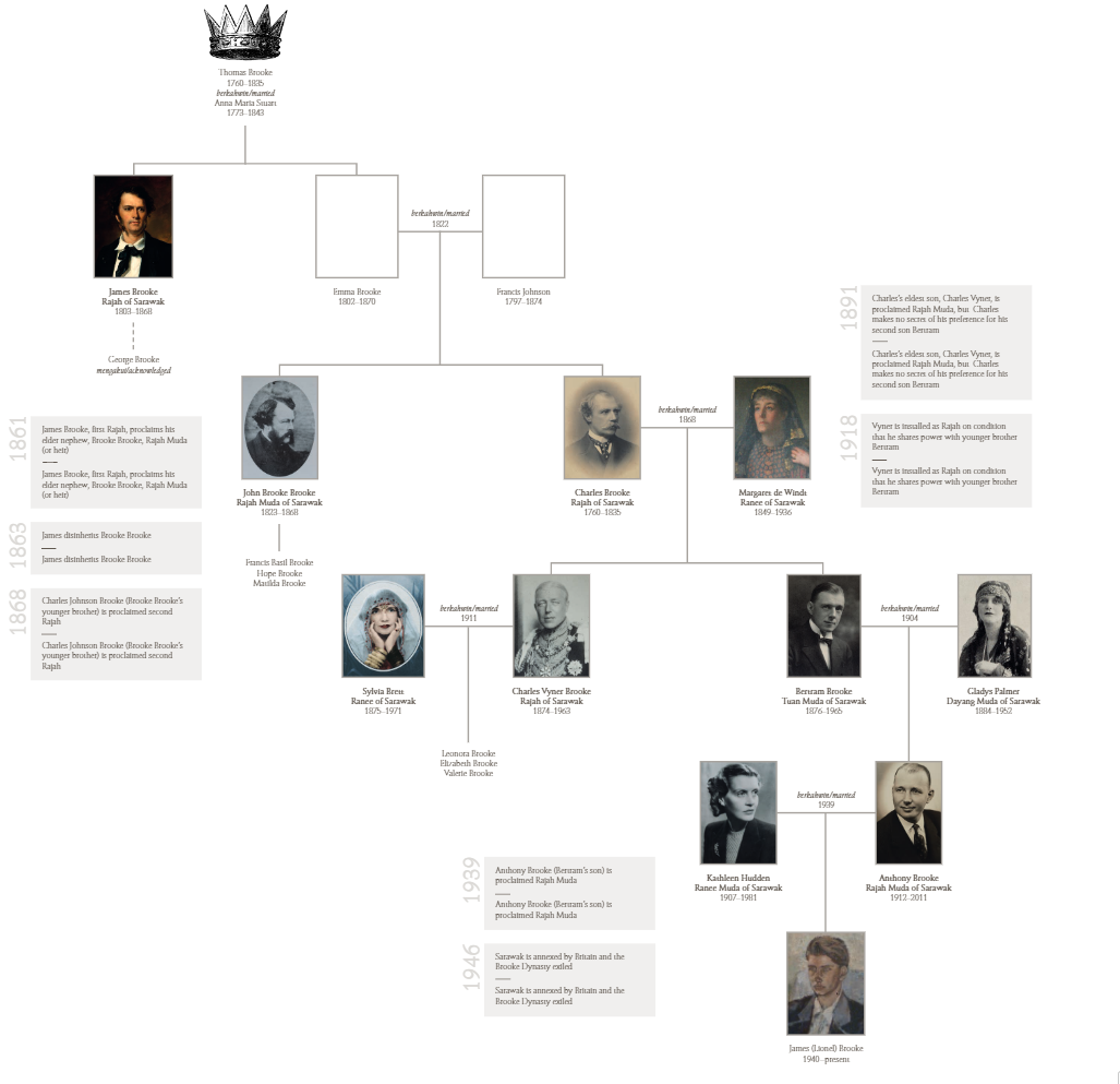 The Brooke Family Tree